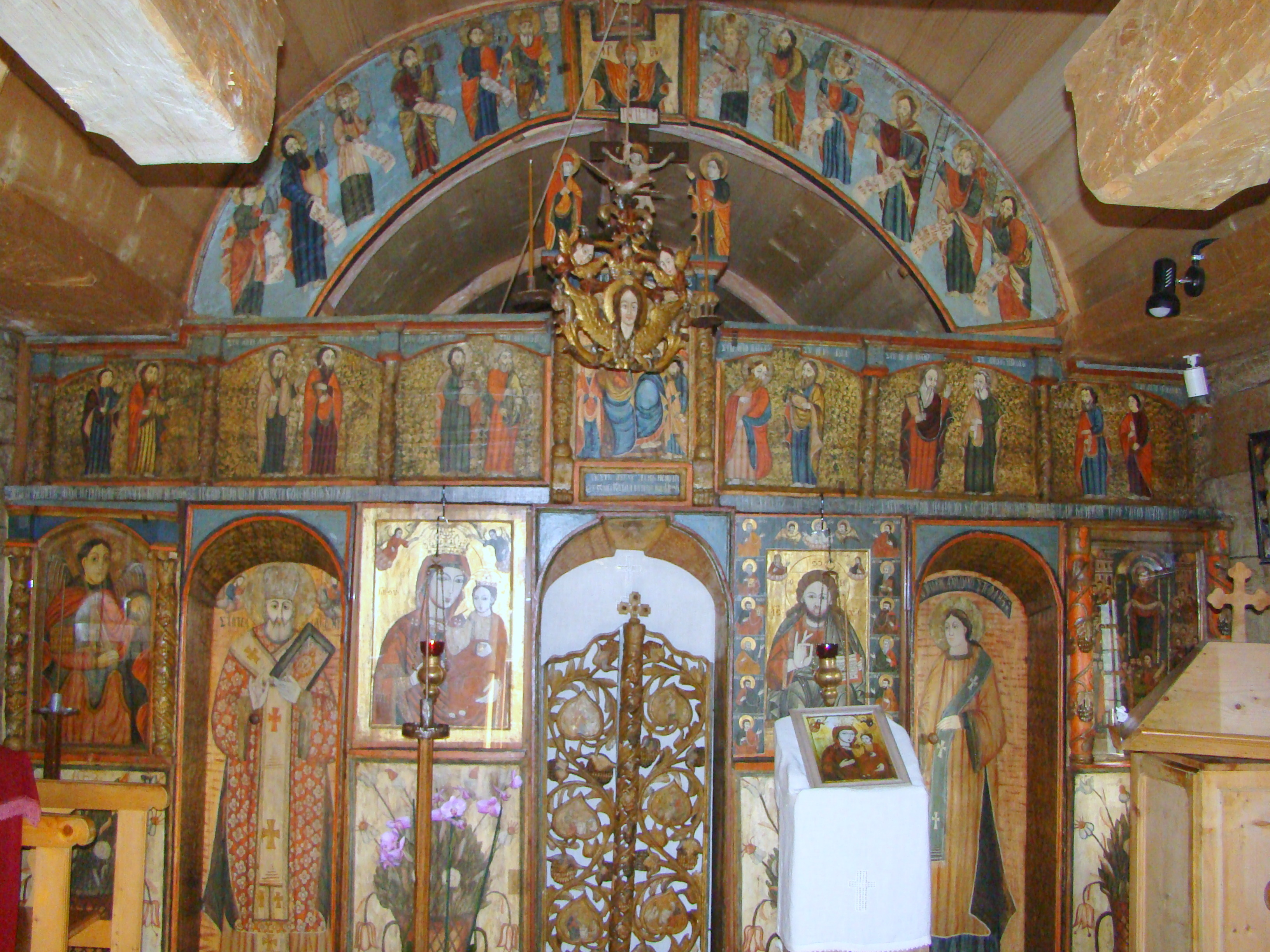 Wooden church in Cormaia monastery, Bistrița-Năsăud county, Romania